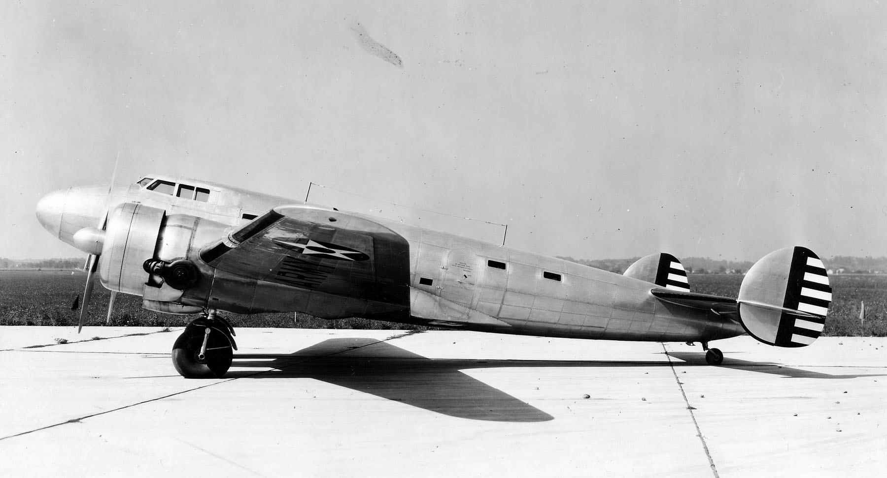 The Lockheed XC-35, the first American aircraft with a pressurized cabin. (U.S. Air Force photo)